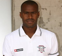 Joao Paulo